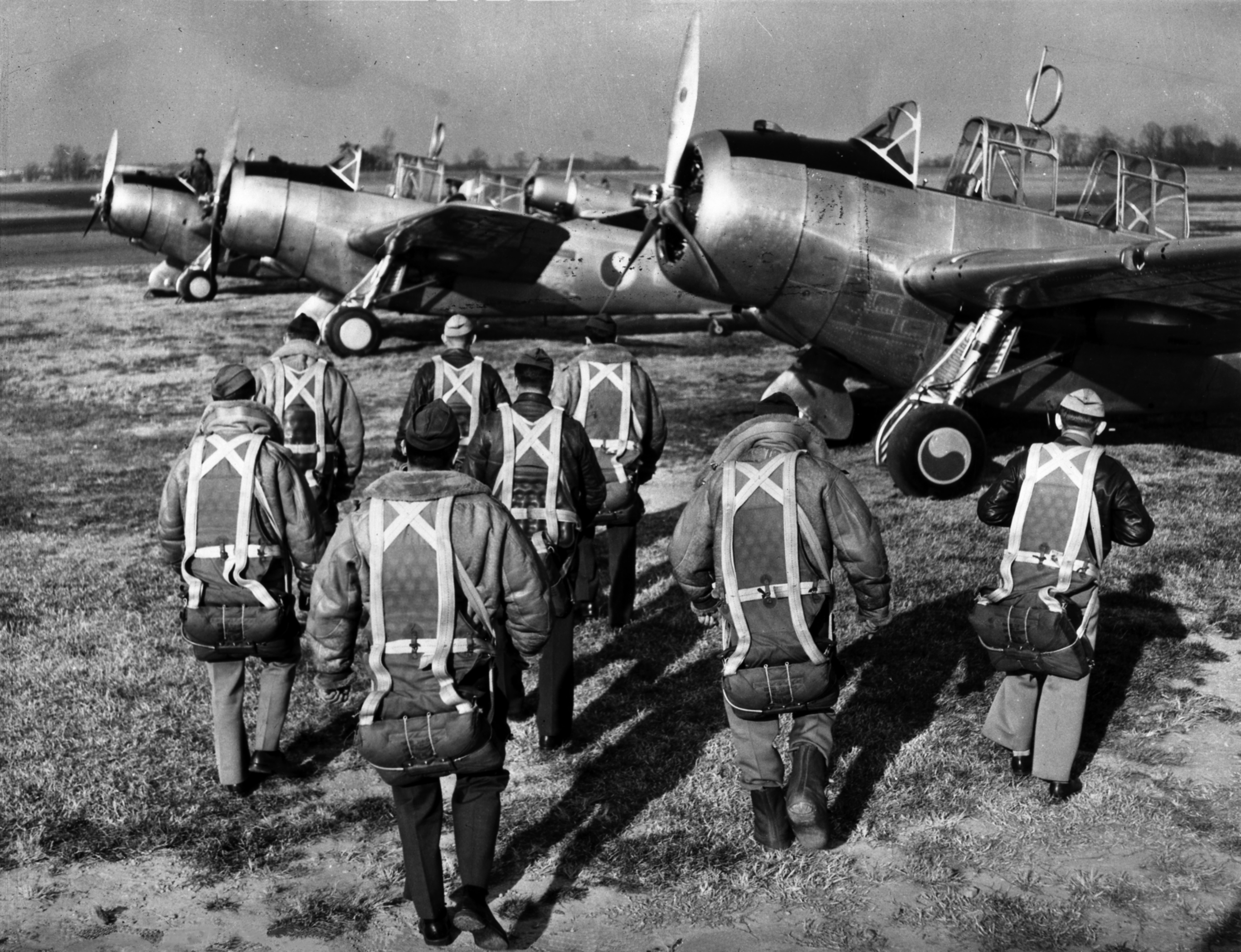 Maryland National Guard crews assigned to the 104th Observation Squadron prepare to board their North American O-47 aircraft at Logan Field in Baltimore, Maryland (USA), prior to a training sortie on 1 March 1940. Less than a year later, the 104th was mobilized in anticipation of World War II.